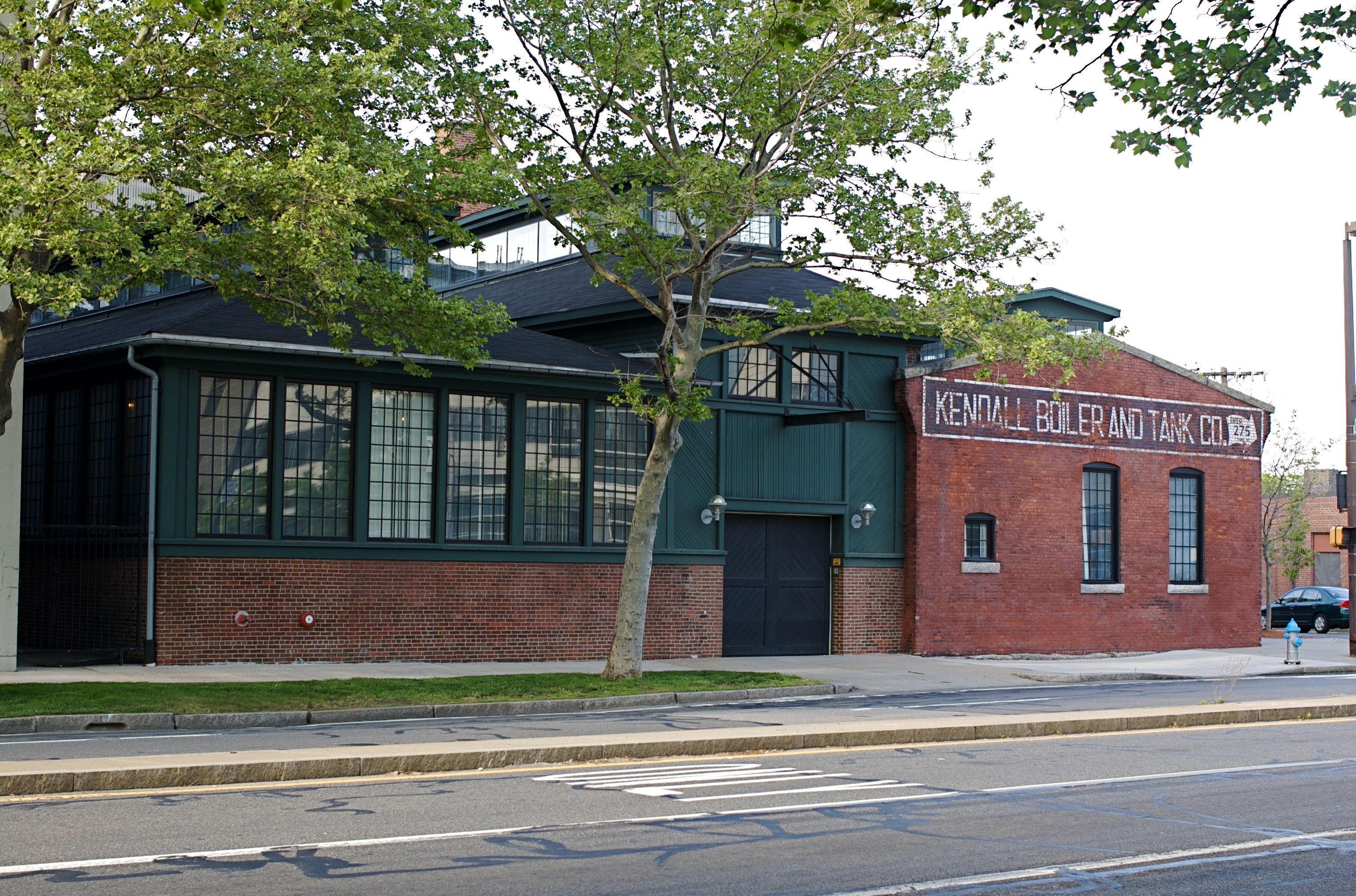 The Kendall Boiler and Tank Company building at the corner of Third and Binney Streets in Cambridge, Massachusetts. The building is part of the Blake and Knowles Steam Pump Company National Register District, on the National Register of Historic Places.